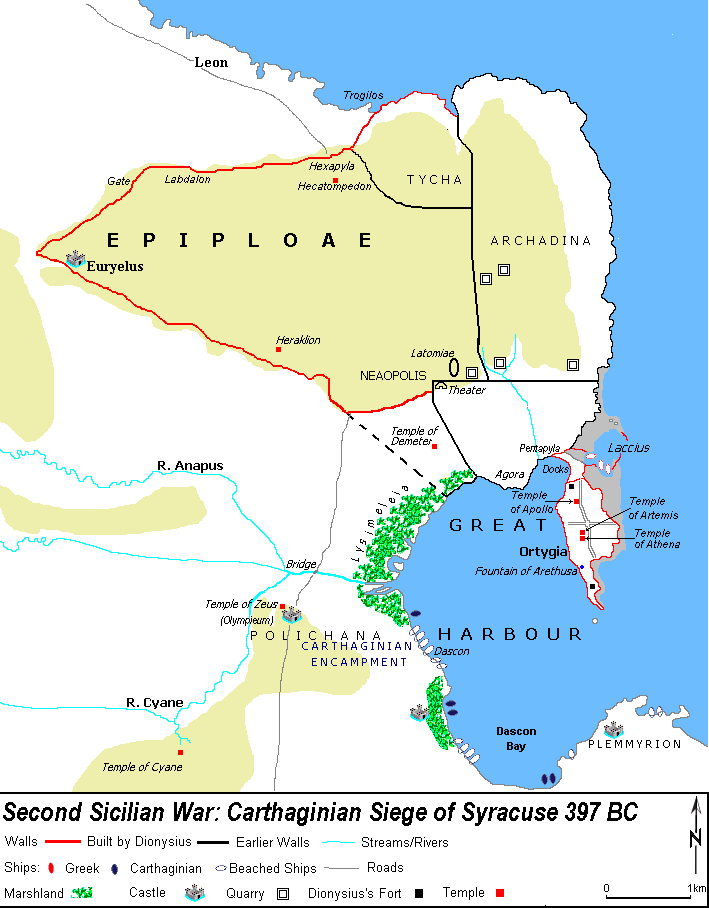 This map represents a possible scenario of the Punic siege of Syracuse 397 BC. This represents information from "Sicily: Phoenician, Greek and Roman" p162 and "History of Sicily Vol 4" p10-13 and p 45-p55, both by Edward A. Freeman, which are in the Public domain. This file is modified from Map of Sicily designed by Marco Prins-Jona Lendering and was used as per the permission given.